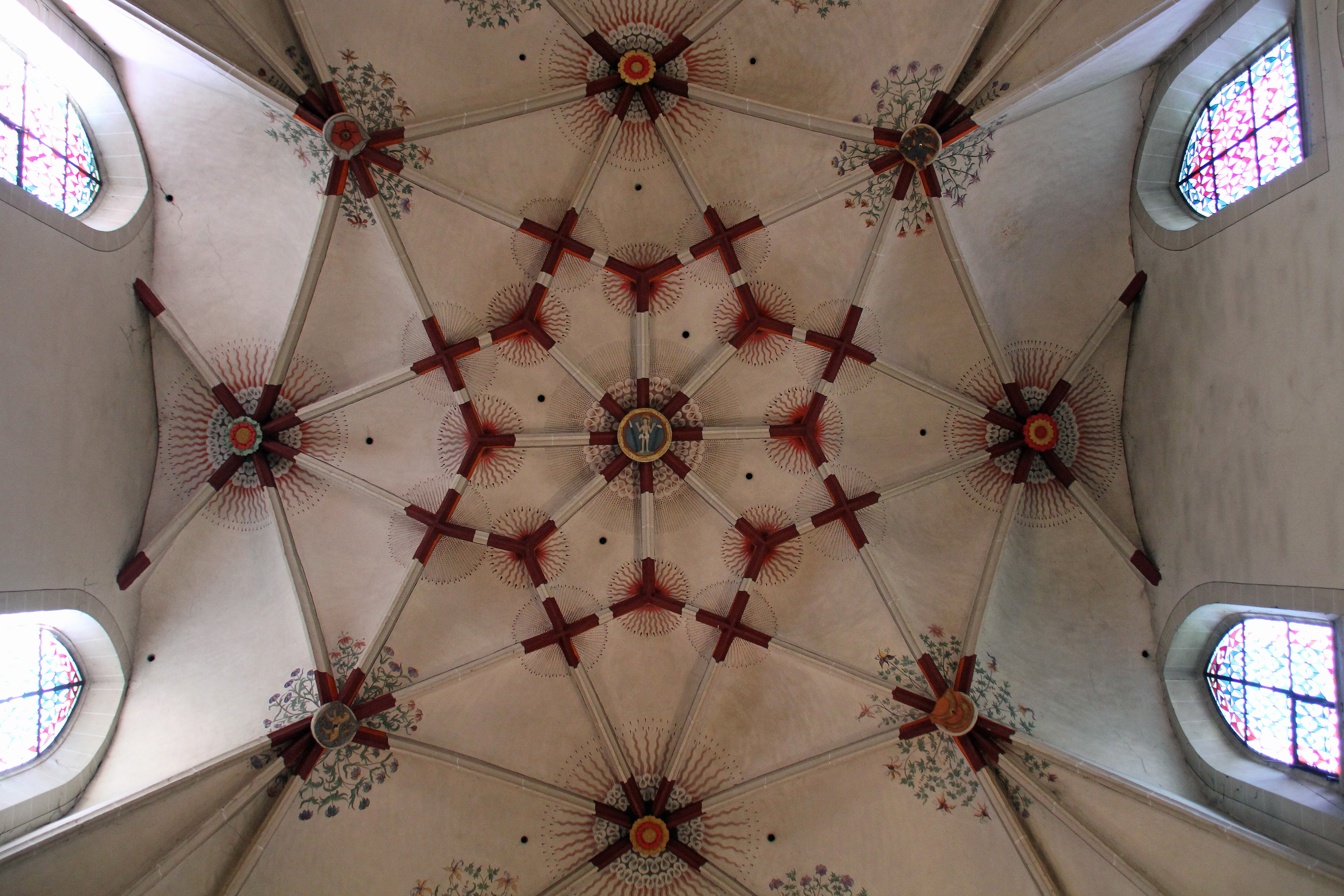 Basilica of St. Castor in Koblenz